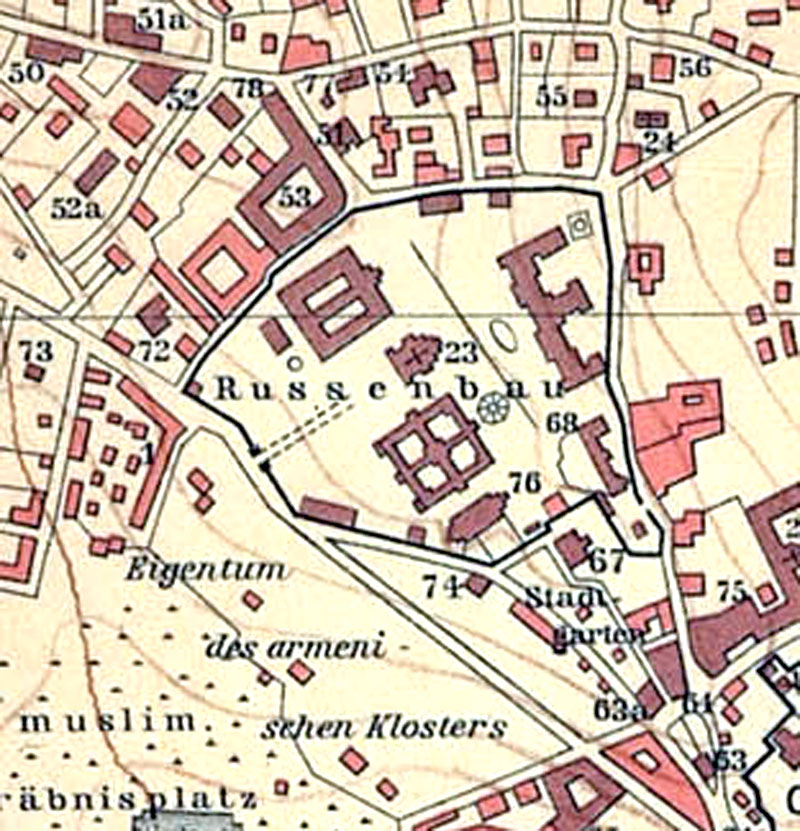 map of Russian Compound in Jerusalem 1894